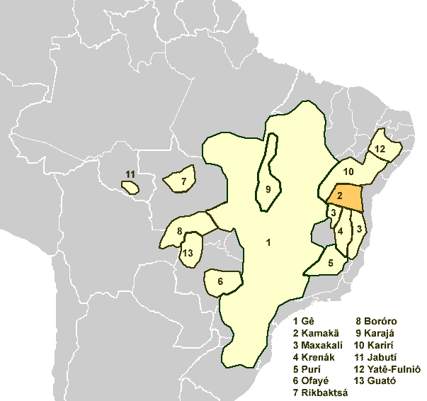 Kamakãn languages (orange) Source: Ribeiro, Eduardo & Van der Voort, Hein (2010) “Nimuendajú was right: The inclusion of the Jabuti language family in the Macro-Jê stock”, International Journal of American Linguistics, 76/4.